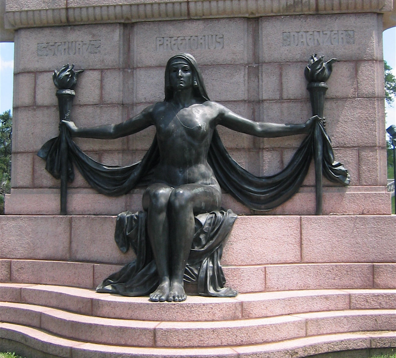 The Naked Truth at Compton Hill Reservoir Park in St. Louis, Missouri, dedicated to three German-American journalists, sculpted by Wilhelm Wandschneider, 1914